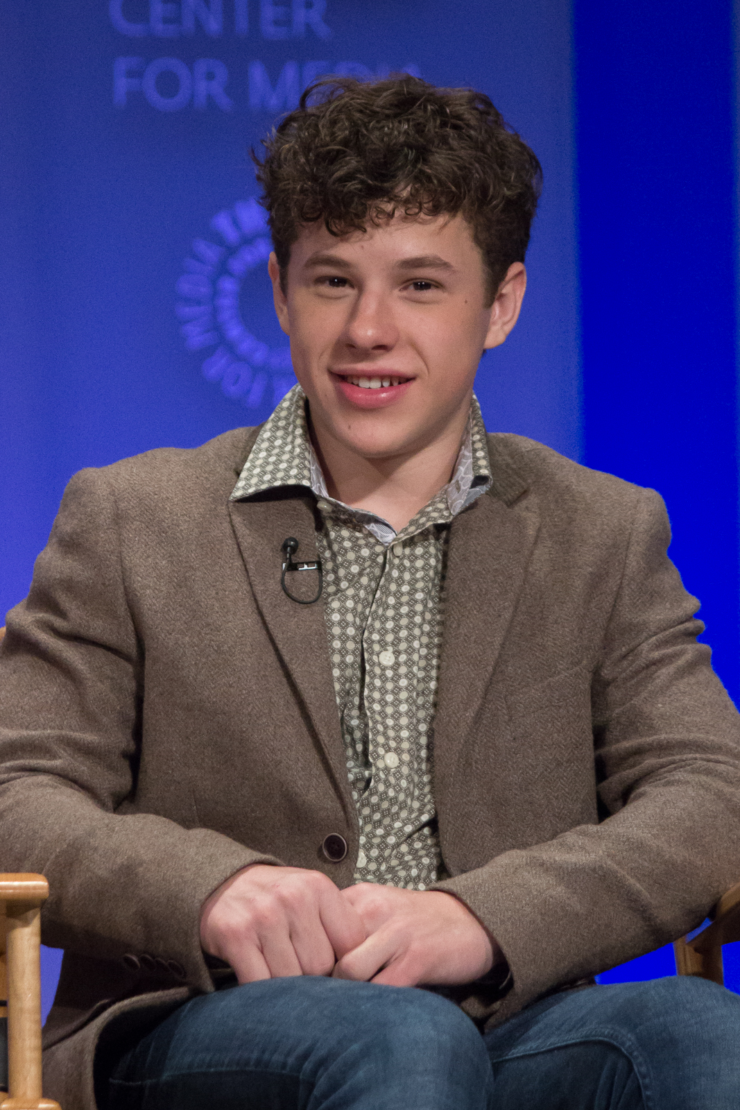 Actor Nolan Gould at the 2015 PaleyFest for the show "Modern Family"